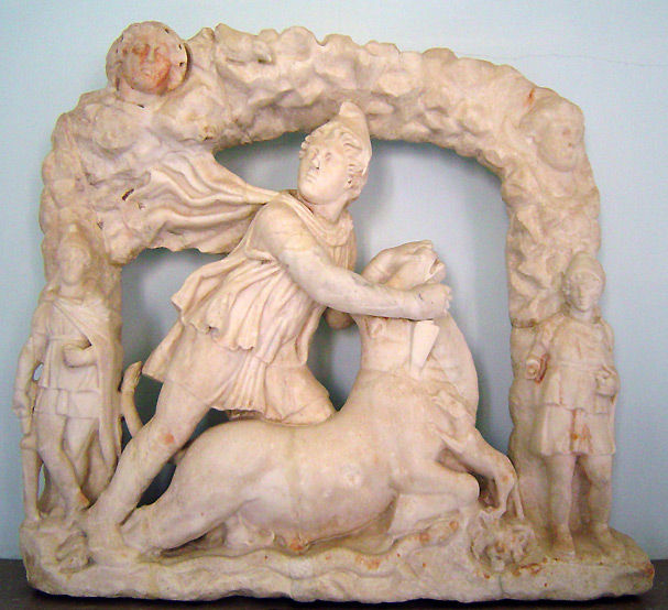 CIMRM 164: Mithras killing the bull (Tauroctonous Mithras), with torchbearers (torches lost), only one of whom is cross-legged, Sol and Luna, the Raven, and (exceptional) a lion's head in front of the snake's head. Mithras' dagger and the head of Cautes are reconstructions. Retains traces of original polychromatic coloring. Marble, Roman artwork, 3rd century AD, on display at the Museo Archaeologico Regionale, Palermo, Sicily.